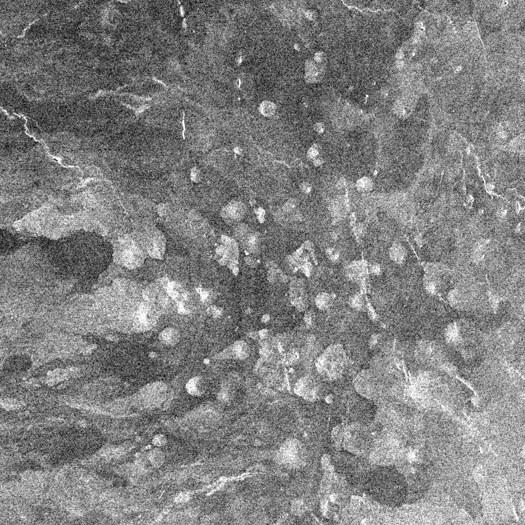 Part of Olosa Colles — field of small volcanoes on Venus (a map). Radar image by Magellan, made in Left-Look mode. Size of the image is 80×80 km, north is up, contrast is increased.